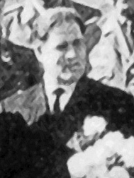 Mikhail Petrovich Devyatayev, 1972.